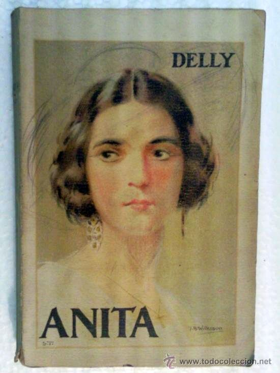 Cover of novela "Anita" - Jeanne Marie Henriette Petitjean de la Rosiére (1875–1947) and Frédéric Henri Petitjean de la Rosiére (1876-1949)